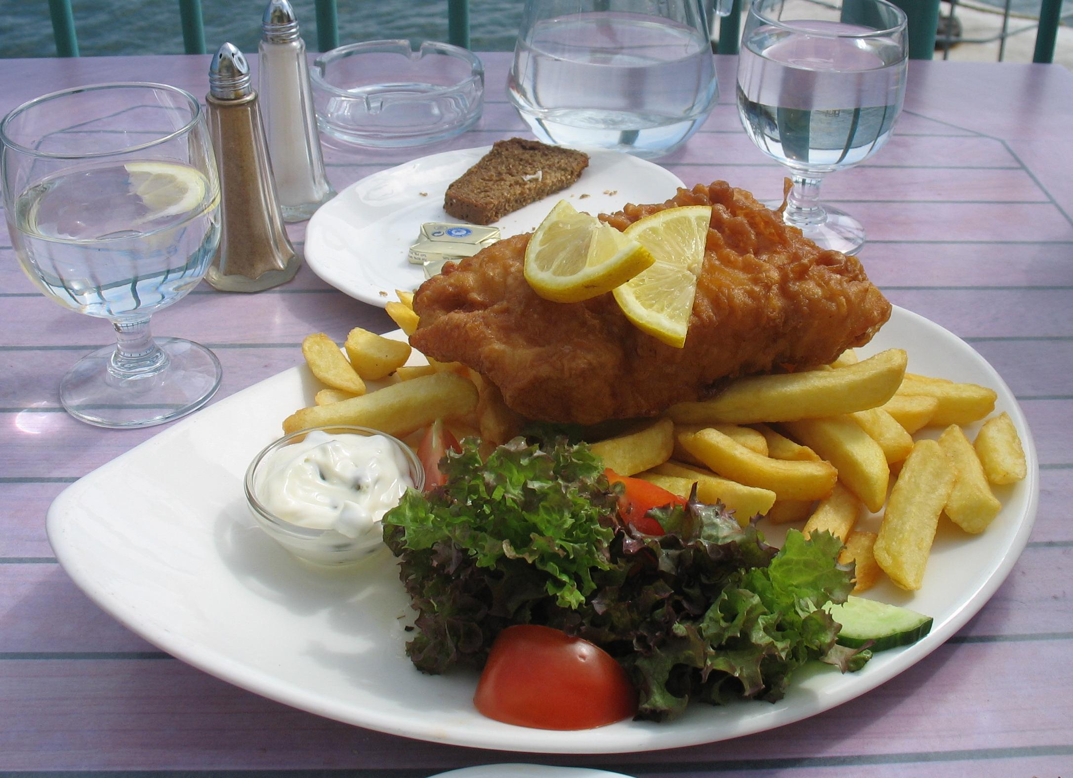 Fish and chips